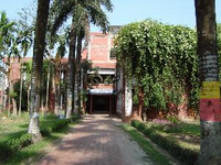 Front view of Department of Chemistry, Jahangirnagar University